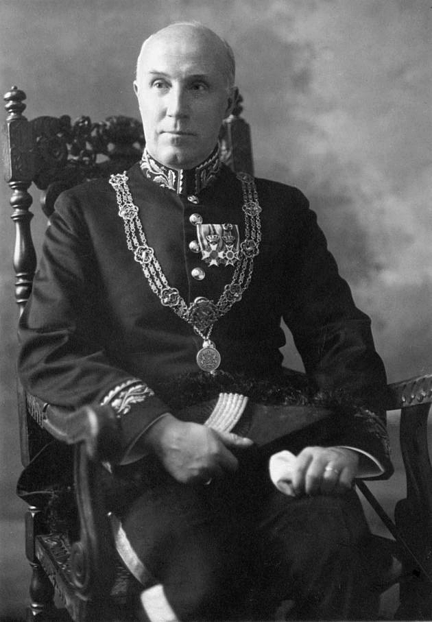 Salomon Jean René de Monchy (1880-1961), mayor of The Hague from 1934 -1947, in official costume with his chain of office.